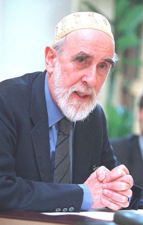 Granted with kind permission of Madinah Media. This image was also used by and